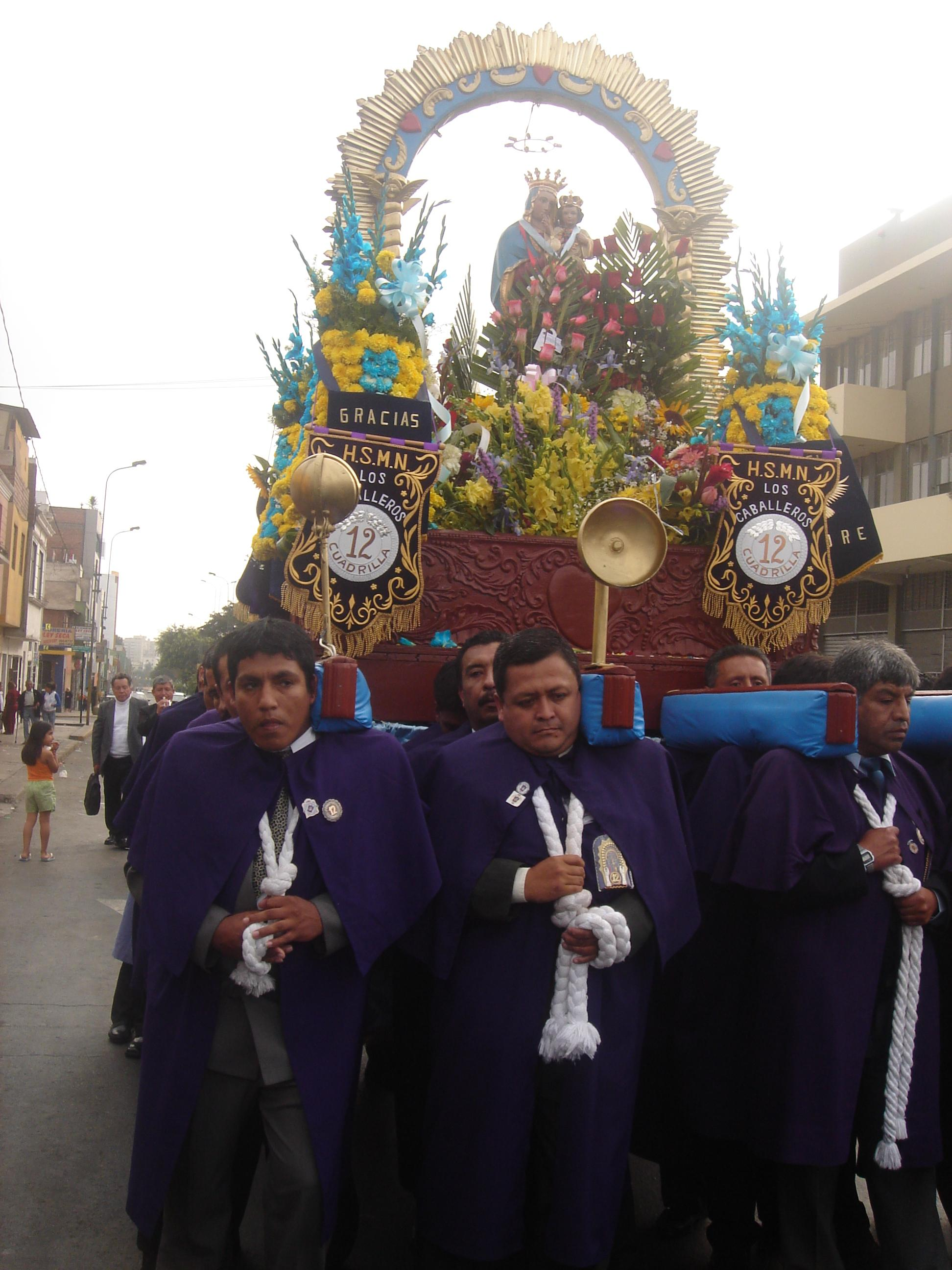 Immaculate Heart of Mary - Lince District, 2007.